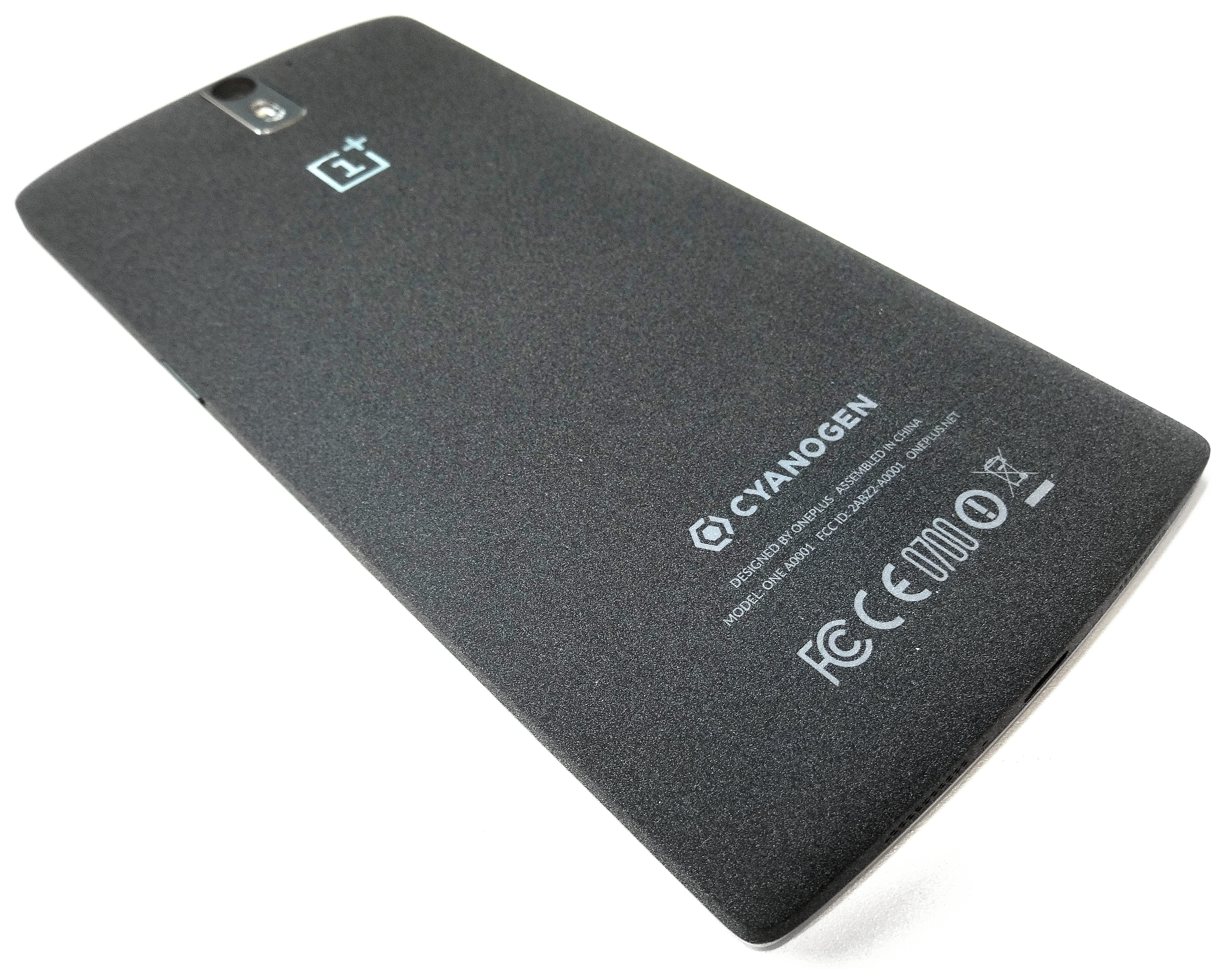 The back cover of the OnePlus One